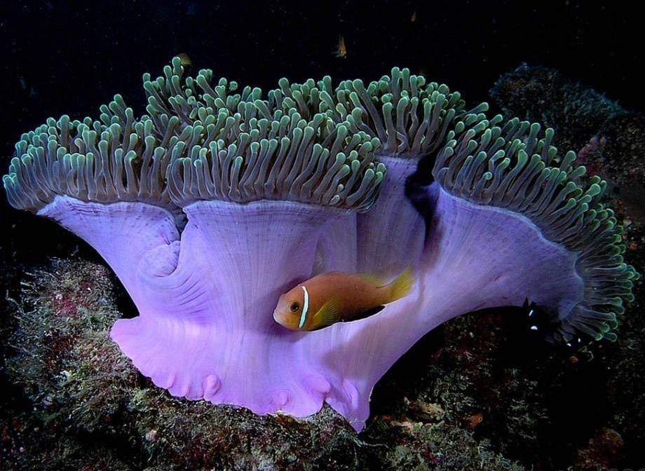 A Maldive anemonefish with a magnificent sea anemone